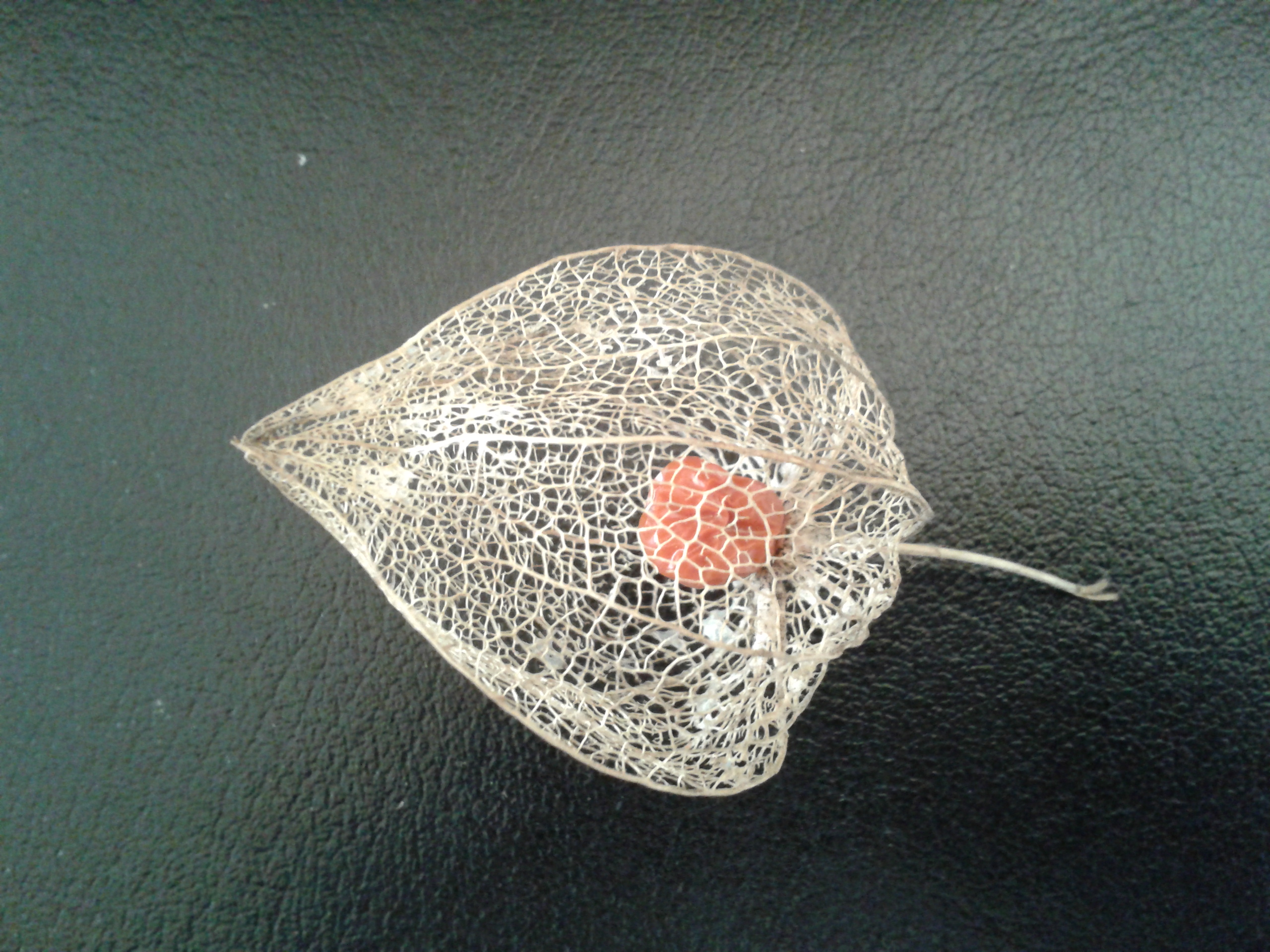 The Physalis alkekengi or the Chinese Lantern blooms during Winter and dries during Spring. Once it is dried, the bright red fruit is seen. The outer cover is a thin mesh that held the flower petals is seen in golden colour.